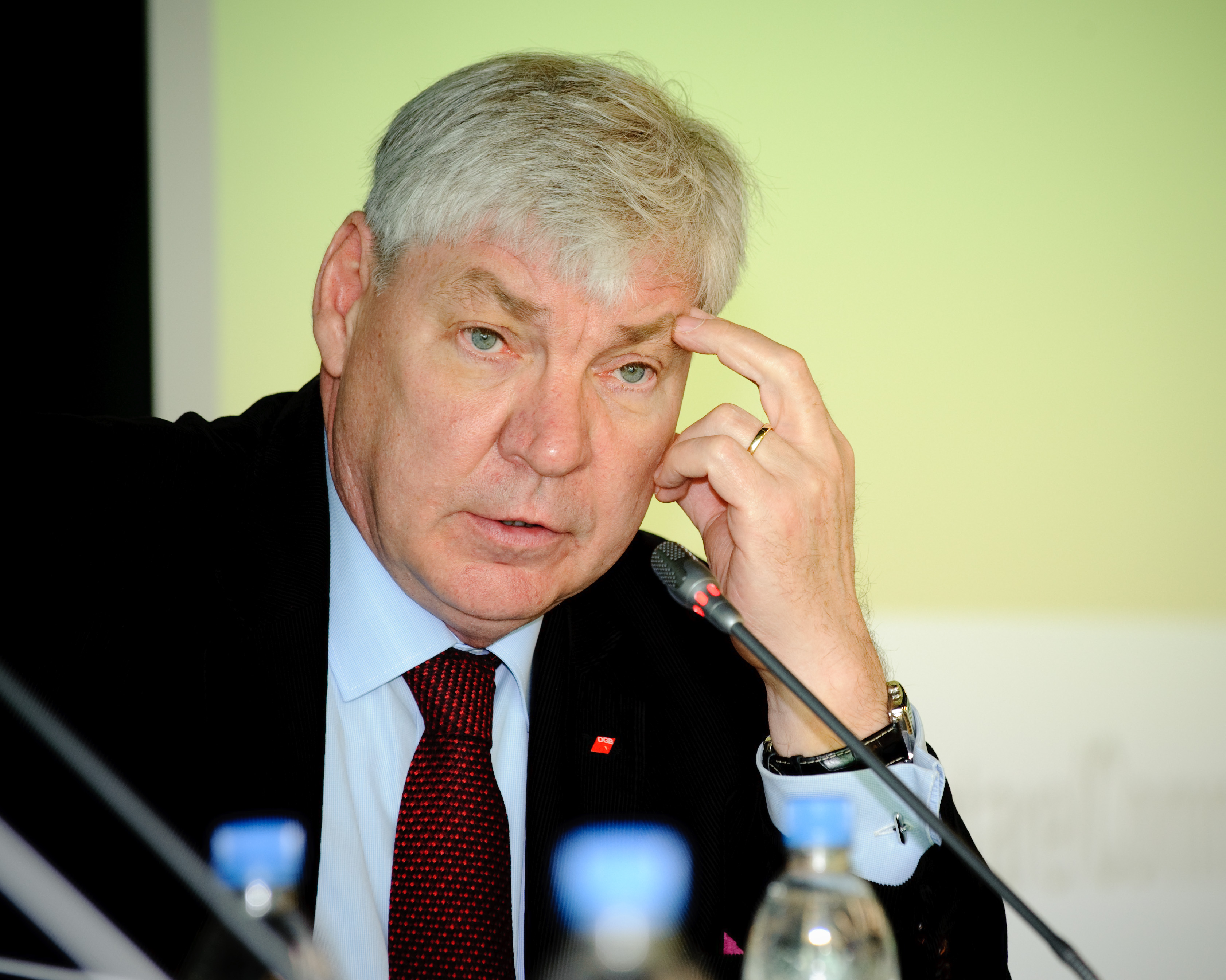 Foto: Stephan Röhl